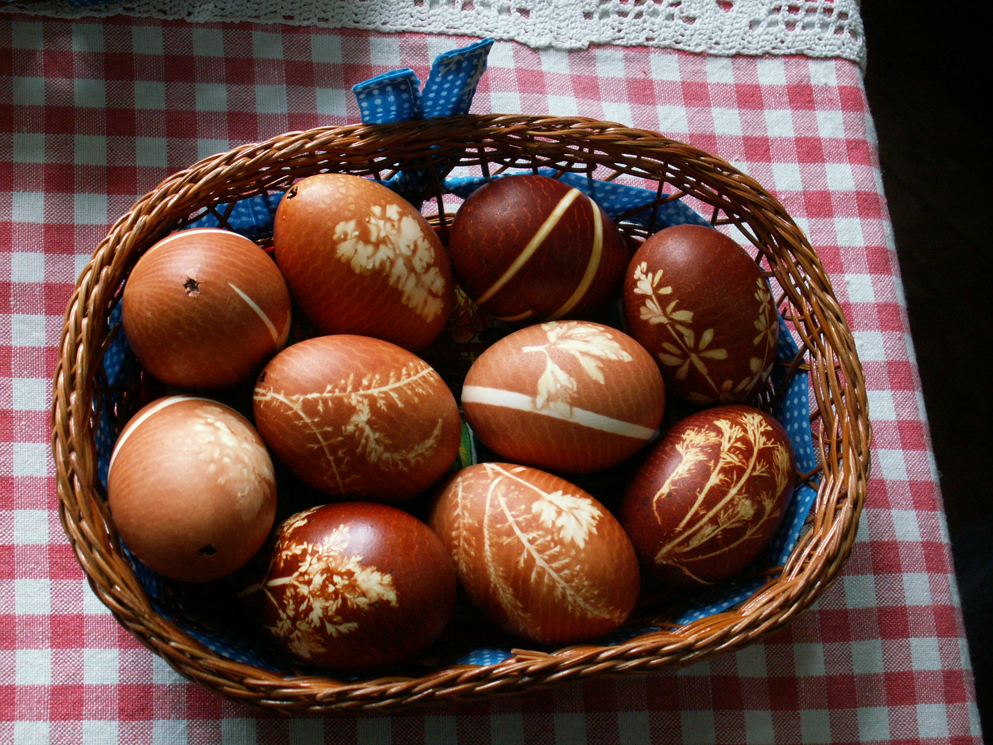 A traditional and still widespread way of colouring Easter eggs in the Czech Republic is boiling them together with onion skins. The patterns can be gained by attaching leaves of various plants to them before boiling, and removing them afterwards. In this picture there are just egg shells, but usually whole eggs are boiled and decorated in this way.The photograph was taken on an exhibition of Easter egg decorating in Bělkovice-Lašťany, the Czech Republic, on 1 April 2002.